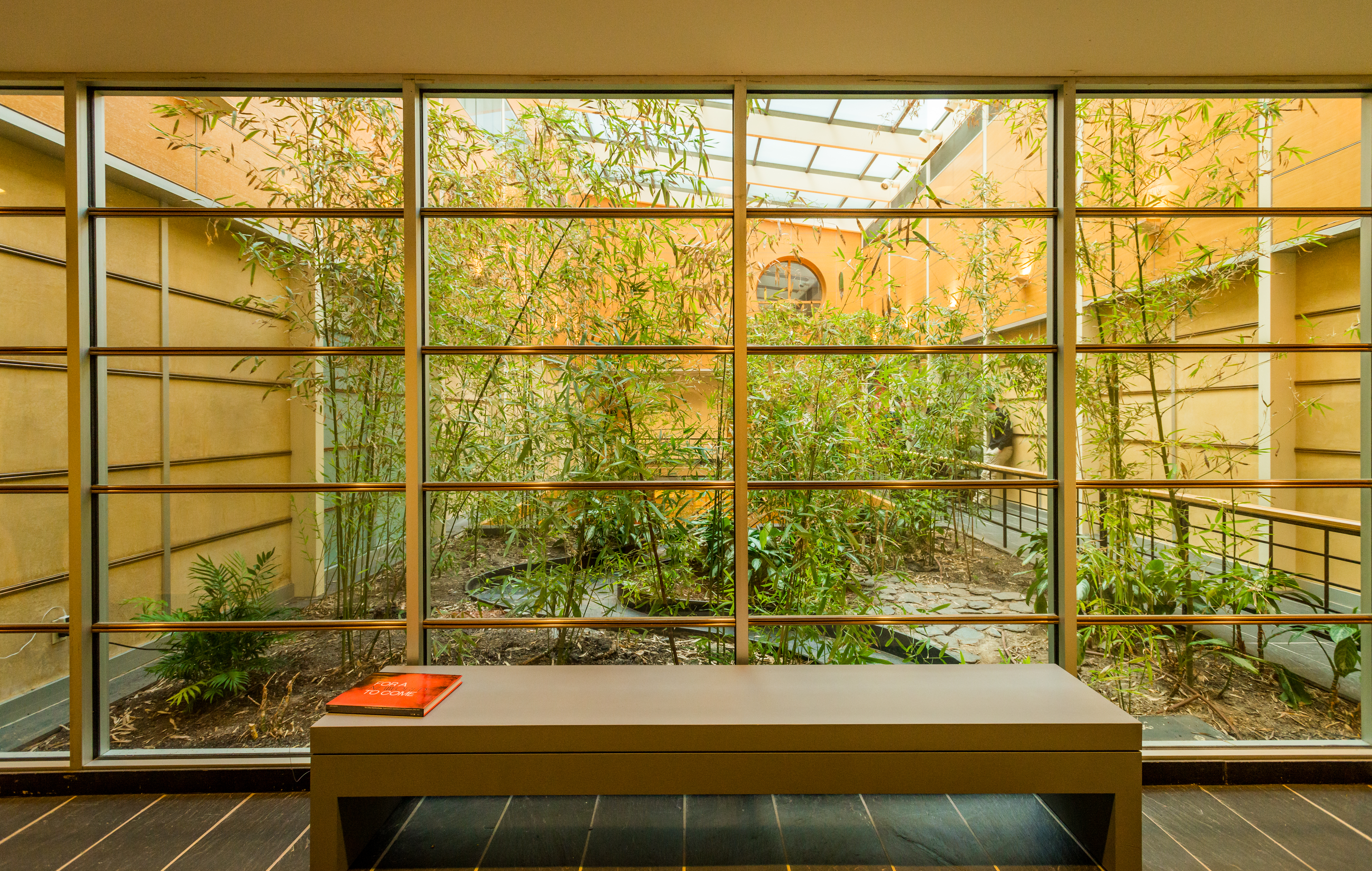 Site: Japan Society